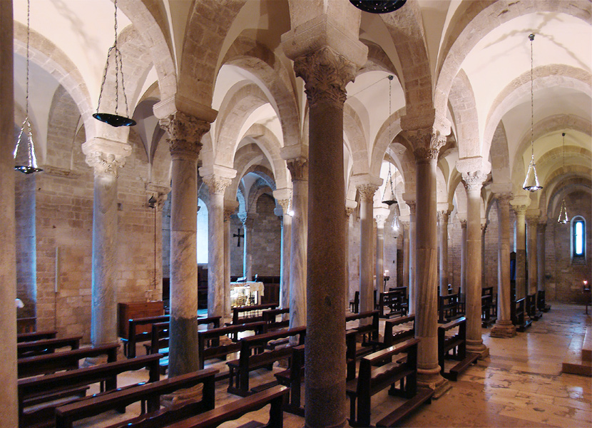 Cathedral of Saint Nicholas the Pilgrim, Trani, Apulia, Italy. The crypt.